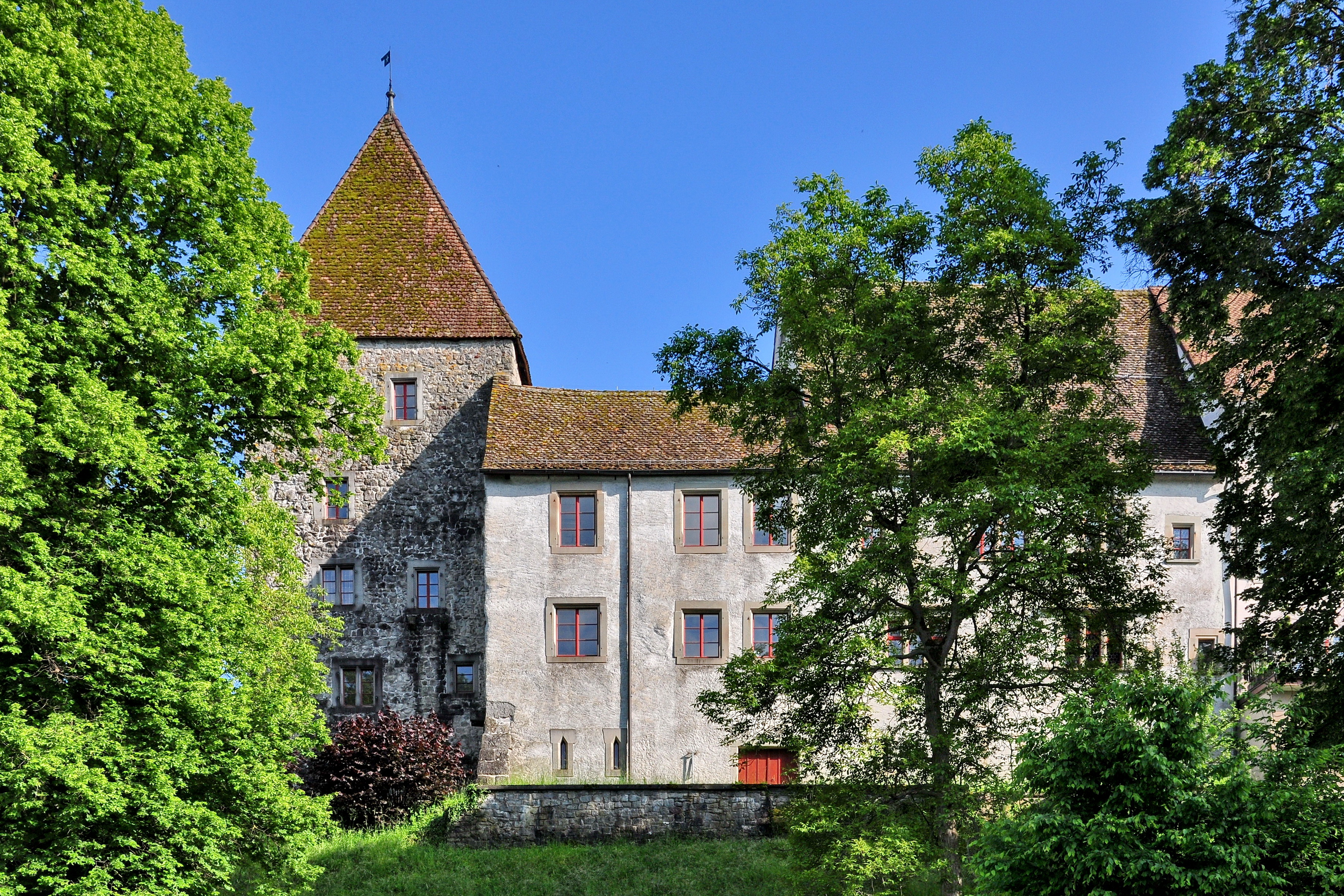 Rapperswil (SG) : Stadtmuseum (Breny tower) and northwestern town walls as seen from Giessi.